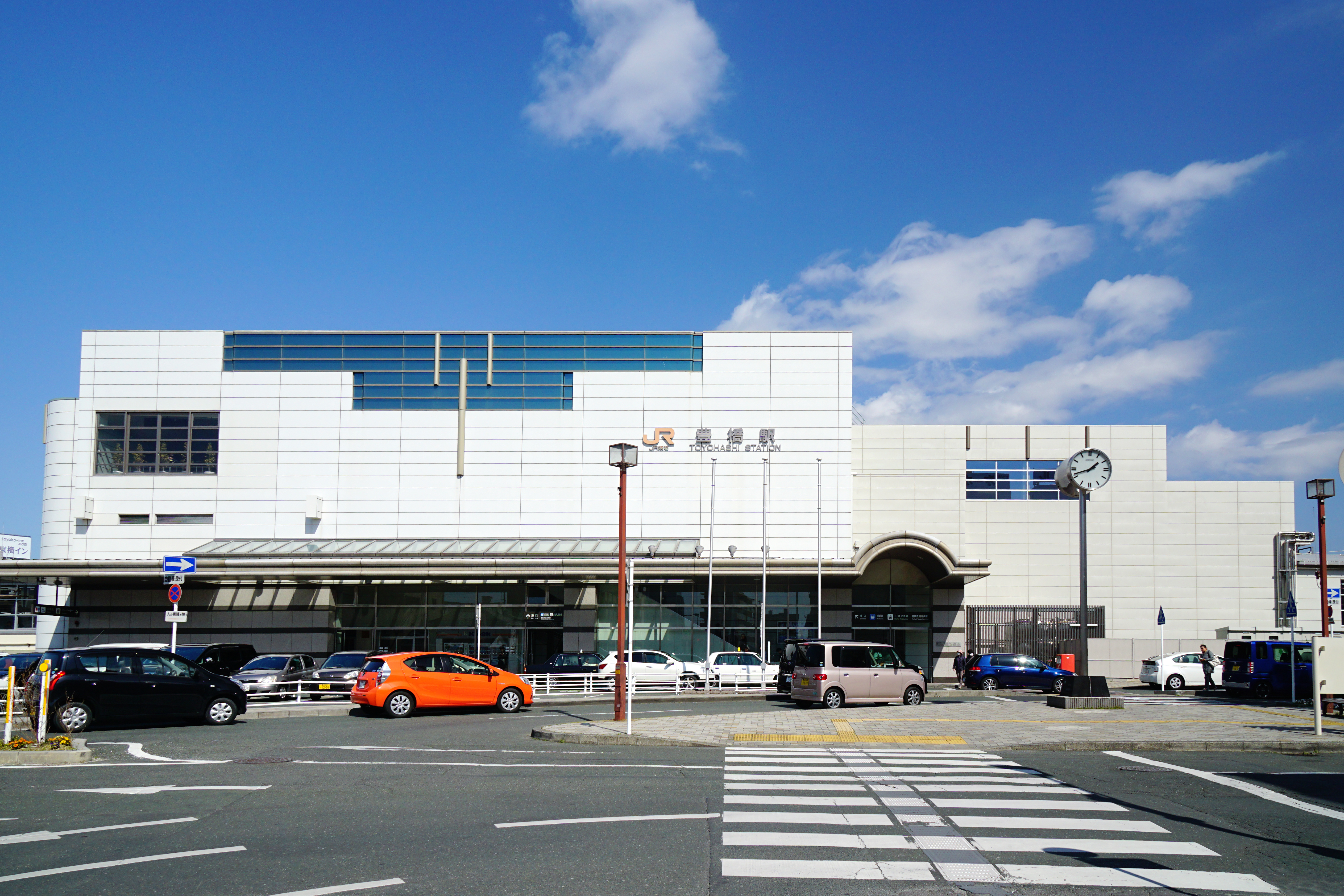 Toyohashi Station in Toyohashi, Aichi prefecture, Japan